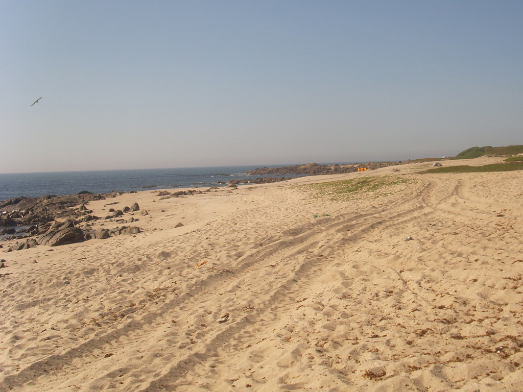 Quião Beach and Cape Santo André, a pilgrimage site, since time immemorial or at least since the Roman era.